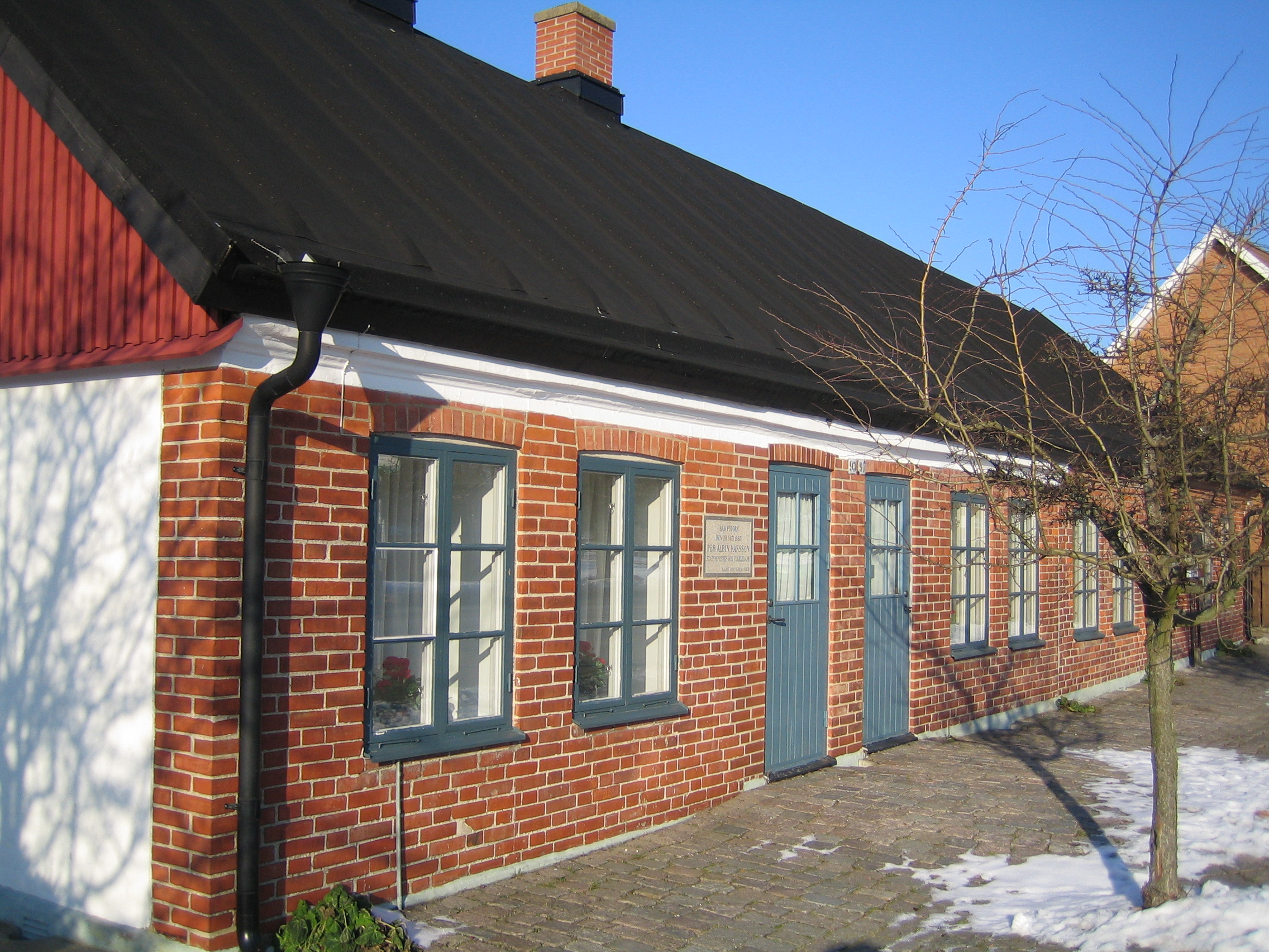 The birthplace of the swedish prime minister Per Albin Hansson. The house is now a museum. It is located in Kulladal, Malmö, Sweden.